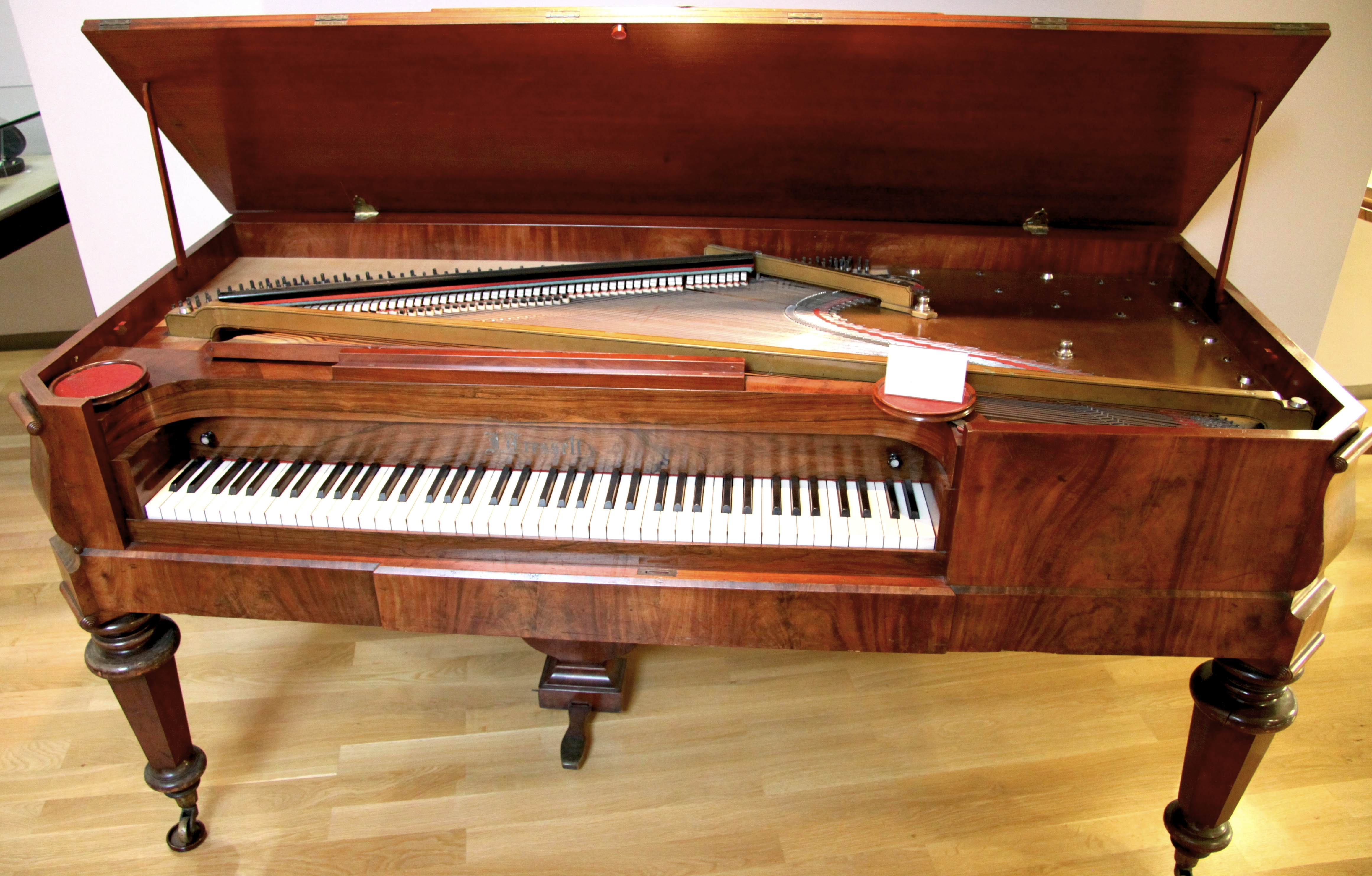 Square piano (Riga, around 1855) at the Music Instrument Museum, Berlin.